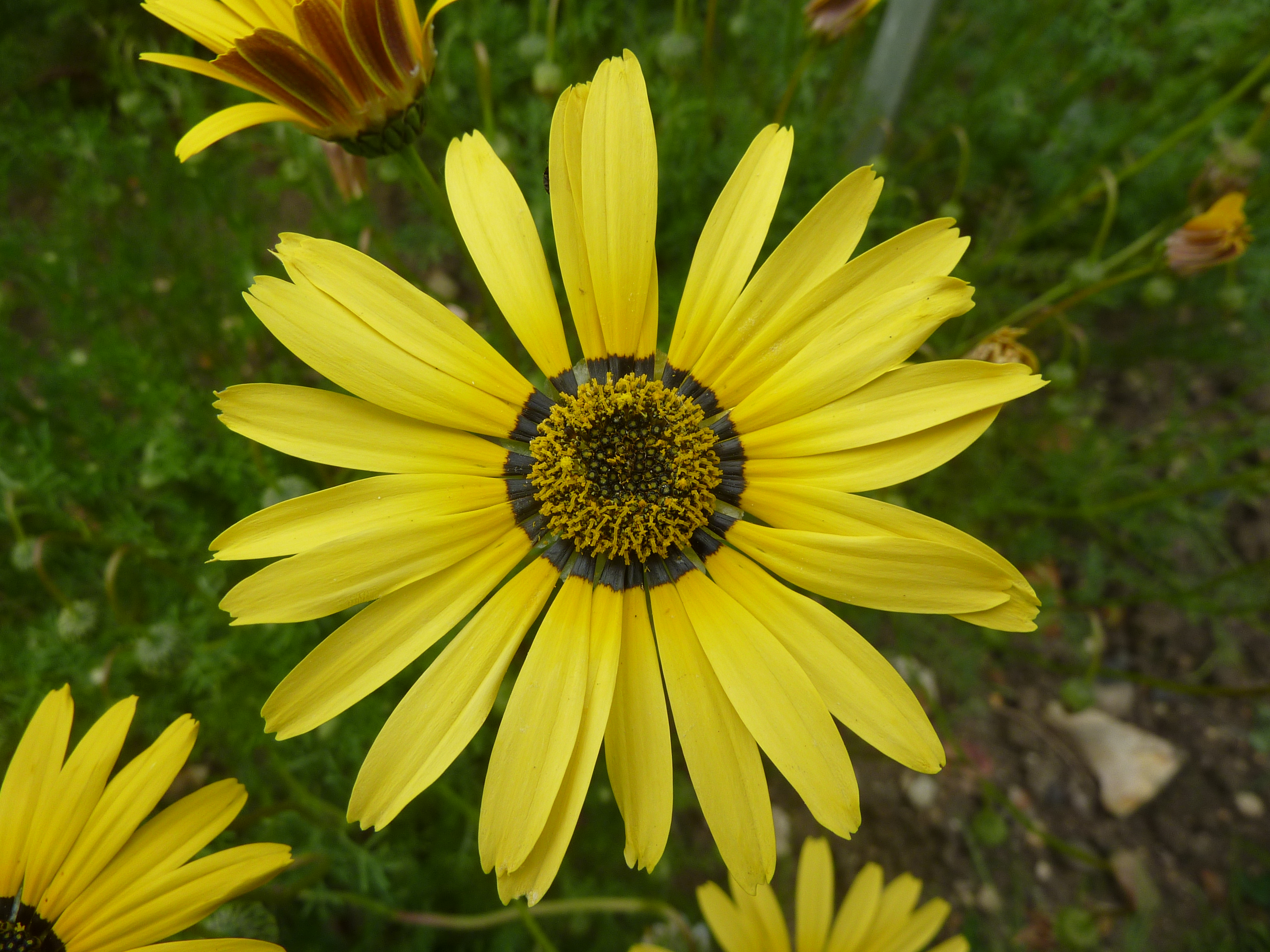 Taken in the Cambridge University Botanic Garden